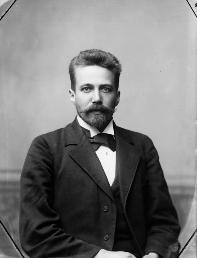 Photograph of the Finnish educator Axel Theodor Sahlgren (1867–1931).